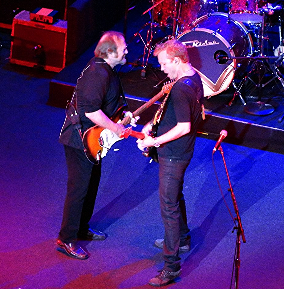 Stephen Stills of Crosby Stills Nash and Young-with The Rides-Barry Goldberg and Kenny Wayne Shepherd. The trio performed with The Rides at The Wilbur Theater-Boston Mass. on Sept. 7, 2013.